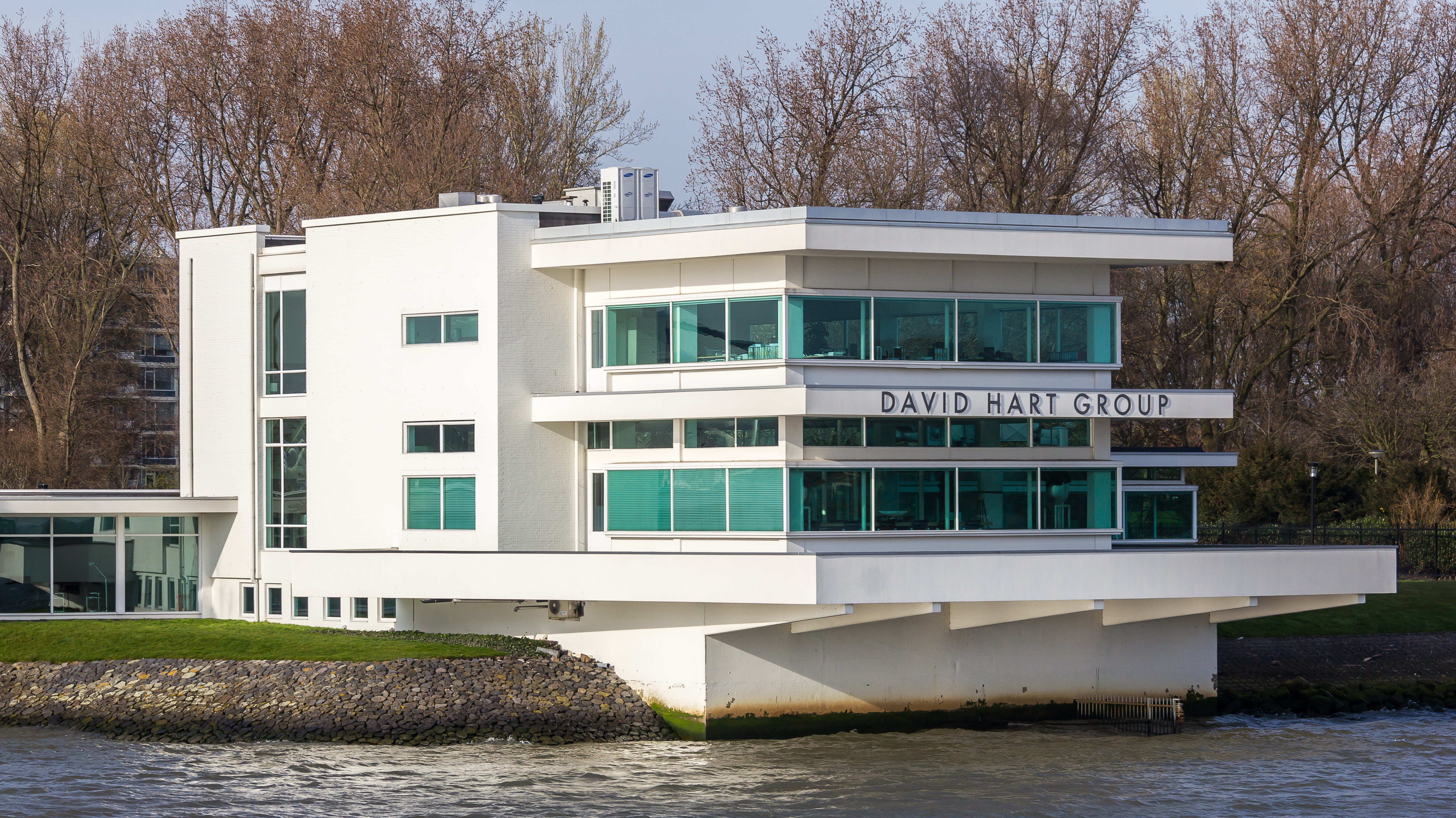 Building David Hart Group, Spuihaven, Schiedam